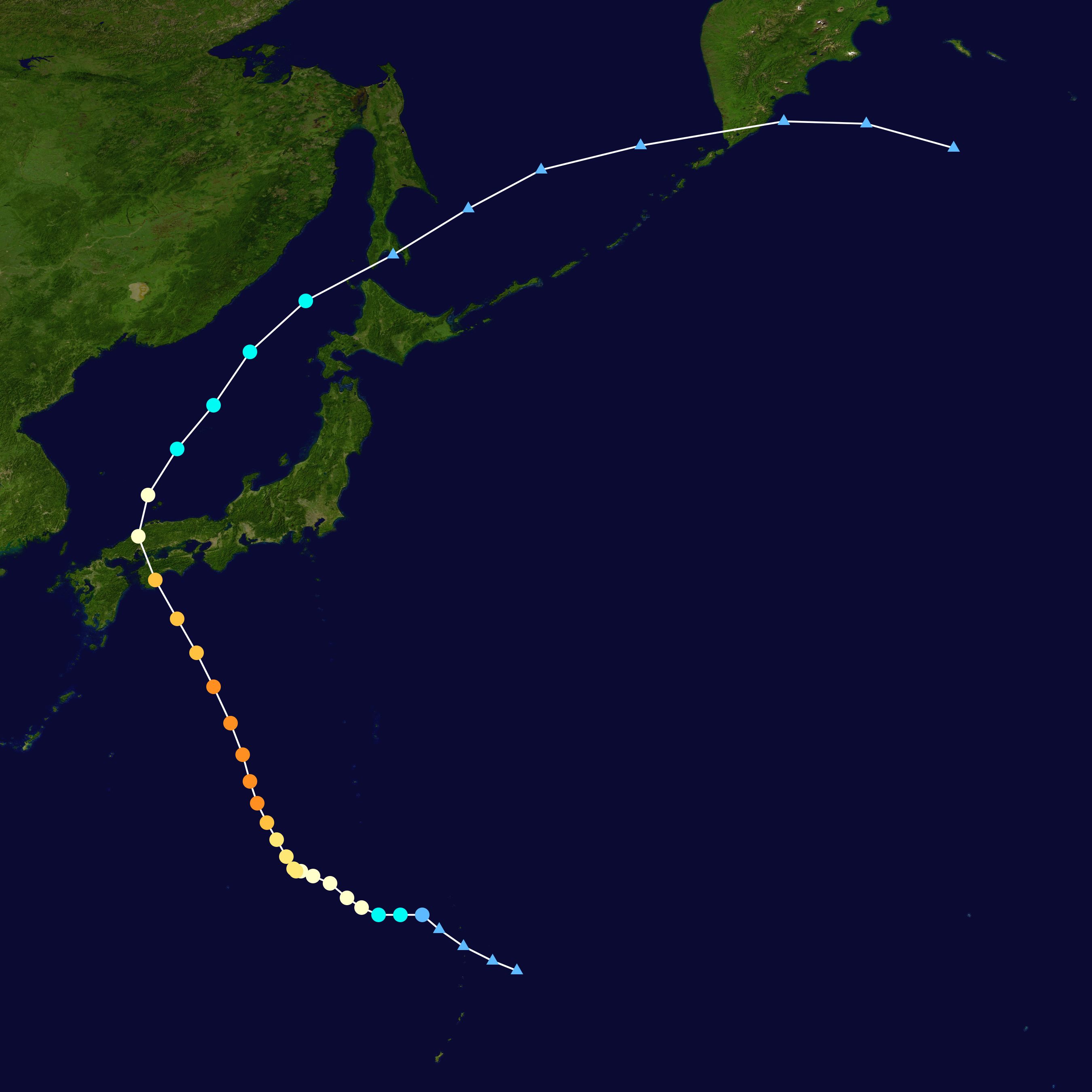 Track map of Typhoon Anita of the 1970 Pacific typhoon season. The points show the location of the storm at 6-hour intervals. The colour represents the storm's maximum sustained wind speeds as classified in the Saffir–Simpson hurricane wind scale (see below), and the shape of the data points represent the nature of the storm, according to the legend below. Saffir–Simpson hurricane wind scale Tropical depression≤38 mph≤62 km/h Category 3111–129 mph178–208 km/h Tropical storm39–73 mph63–118 km/h Category 4130–156 mph209–251 km/h Category 174–95 mph119–153 km/h Category 5≥157 mph≥252 km/h Category 296–110 mph154–177 km/h Unknown Storm typeTropical cycloneSubtropical cycloneExtratropical cyclone / Remnant low / Tropical disturbance